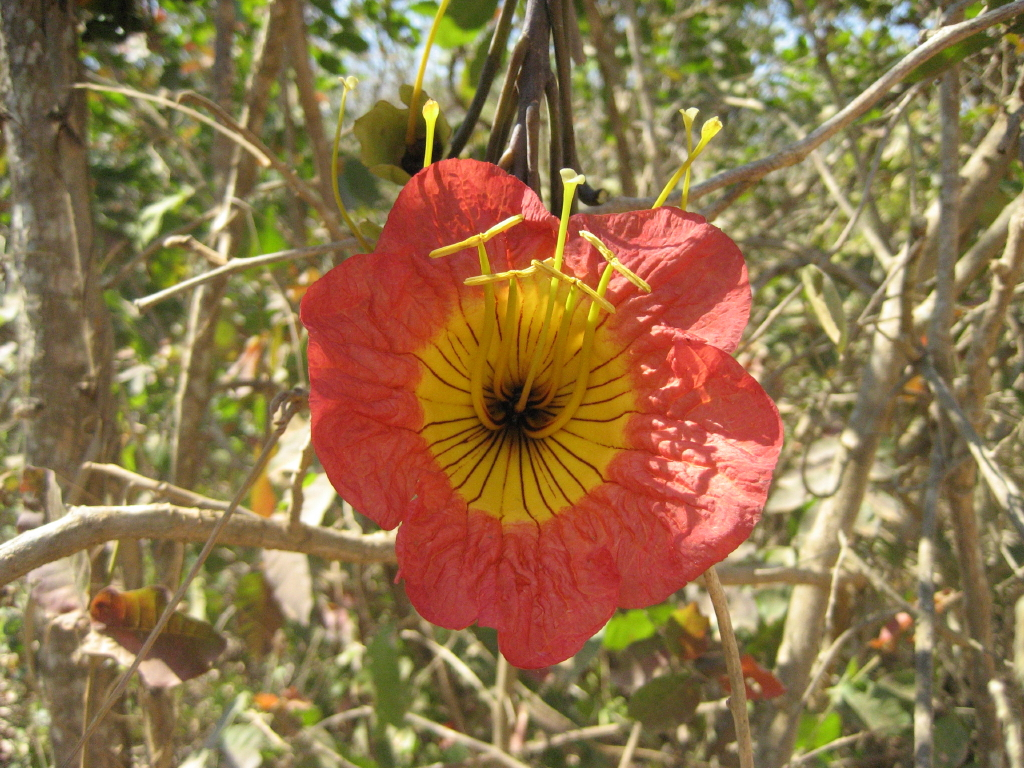 Fernandoa magnifica in its natural habitat, flowering in Machaze District, Manica province of Mozambique.